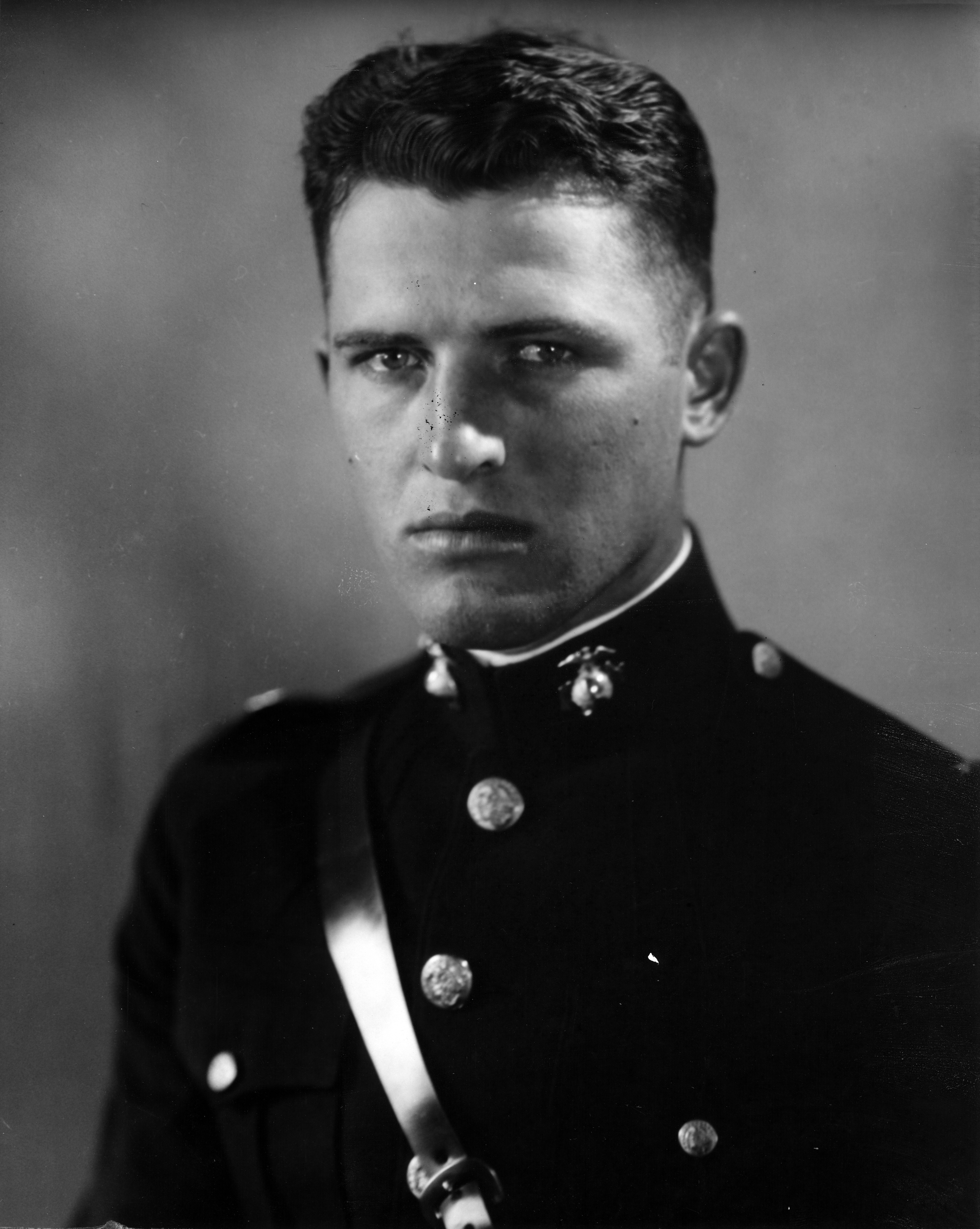 Carey Allen Randall (November 15, 1912 - April 26, 2008) was a highly decorated officer in the United States Marine Corps with the rank of Major General. A veteran of World War II, he is most noted for his service as Military Assistant to the Secretary of Defense from 1951 to 1960. Here shown as second lieutenant in October 1935.